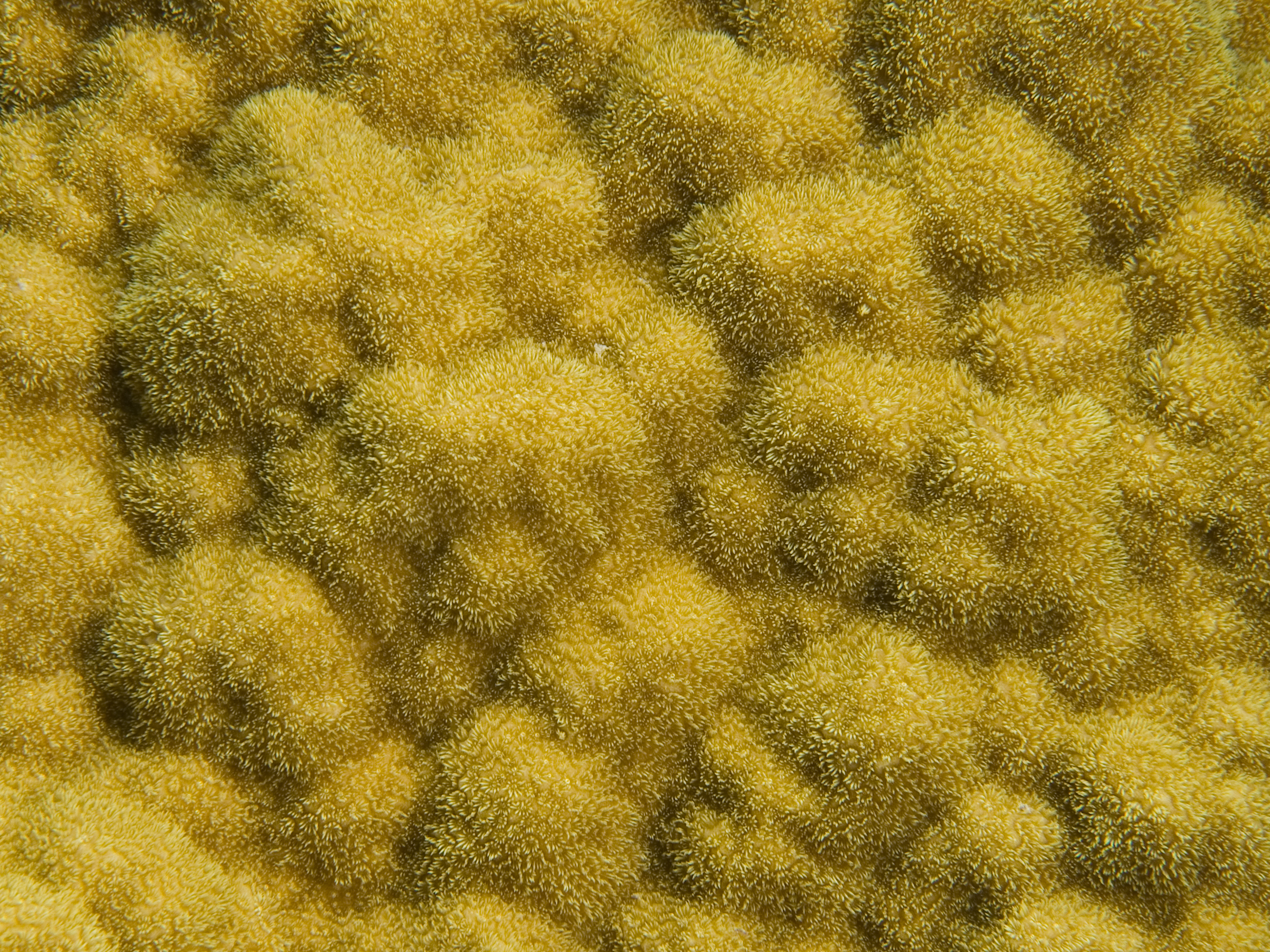 Porites asteroides (Mustard Hill Coral) closeup